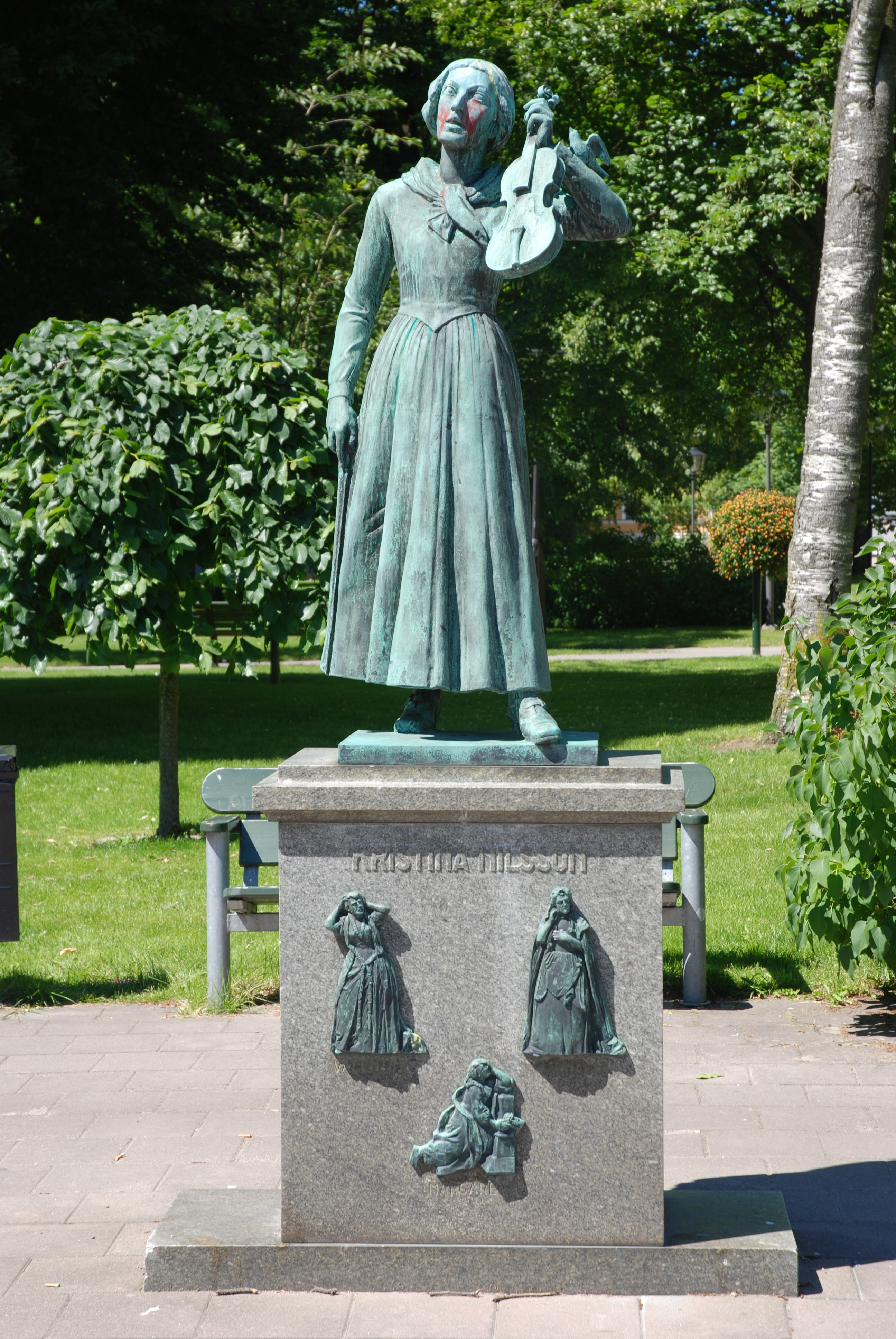 Carl Fagerbergs staty över Kristina Nilsson i Ljungby avtäcktes 1938. The opera singer Christina Nilsson (1843-1921). Statue by the Swedish sculptor Carl Fagerberg (1878-1948).